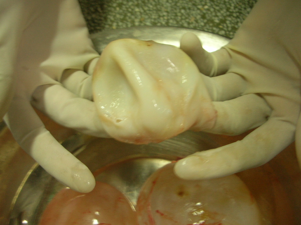 Typical appearance of laminating membrane of a hydatid cyst. Lung hydatid cyst